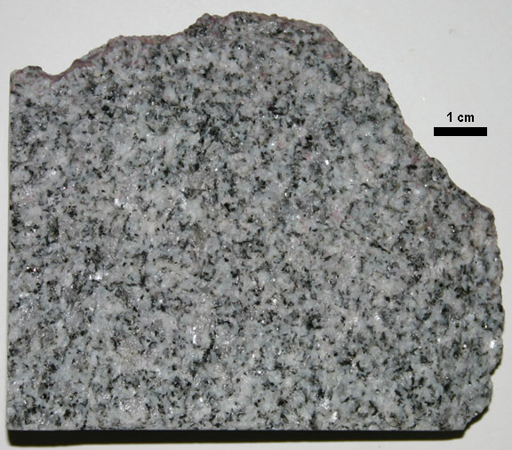 Sample of the Devonian Barre Granite from E. L. Smith Quarry of the Rock of Ages Stone Company, Graniteville, Vermont. Uploaded by James Stuby